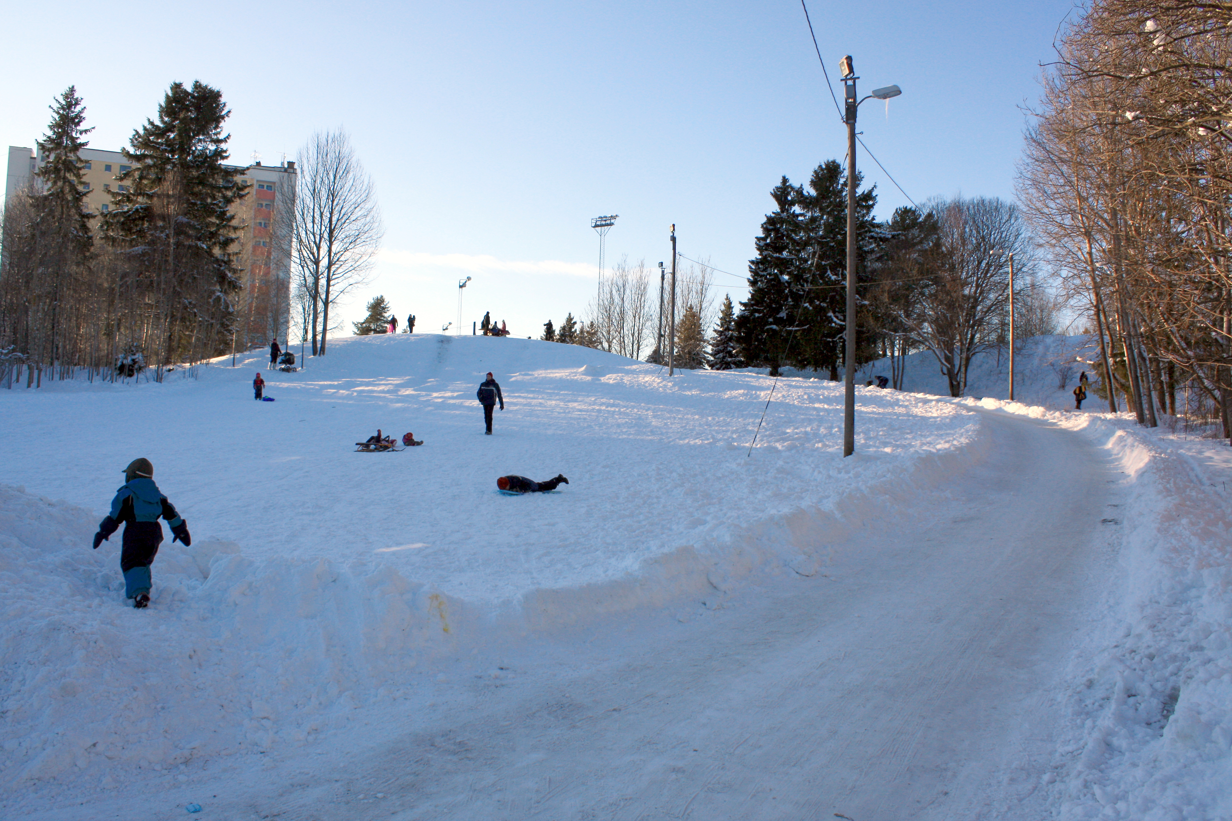 Image of Griser'n